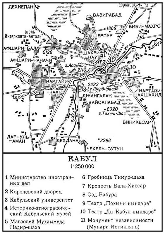 Soviet map of Kabul (1980-s).